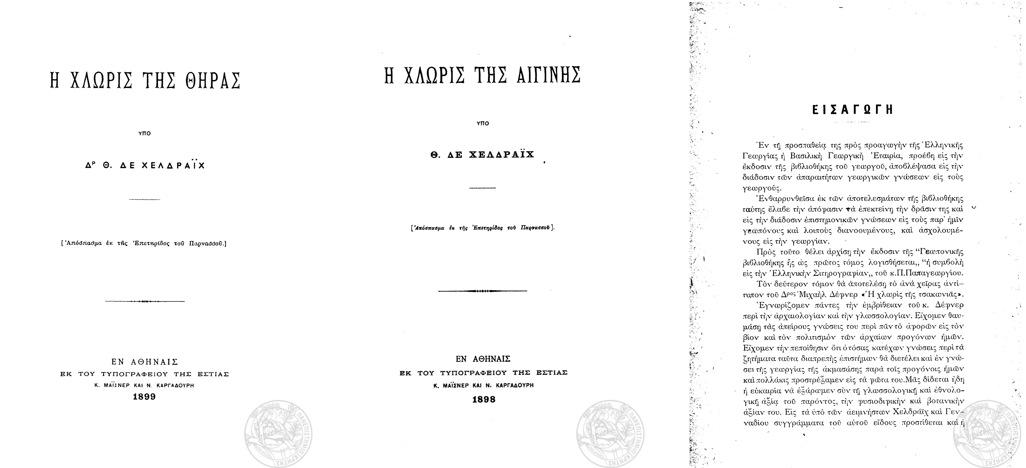 Theodor von Heldreich book